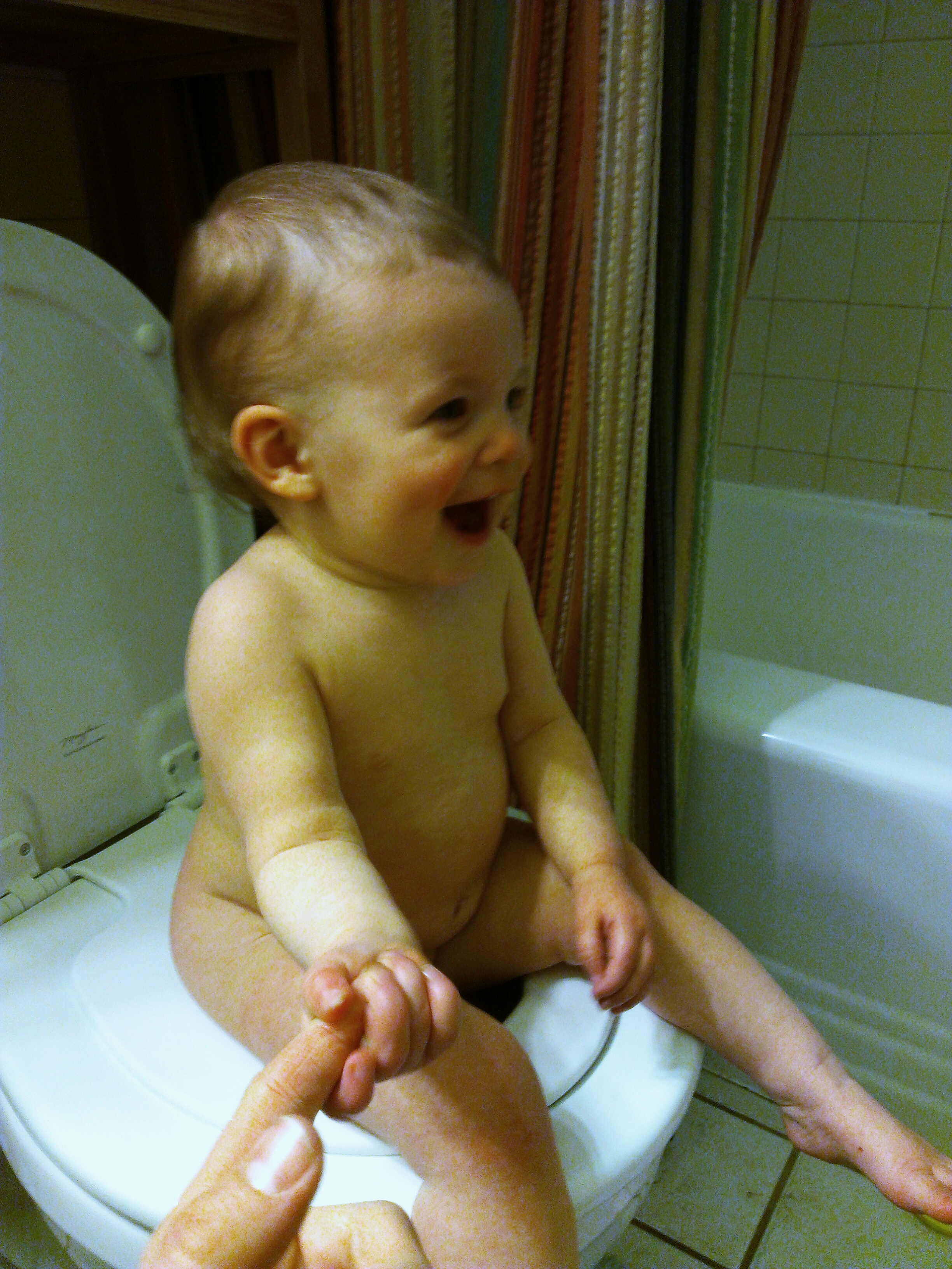 A toddler practicing sitting on the toilet (which is equipped with a child-size seat over the adult-size one)